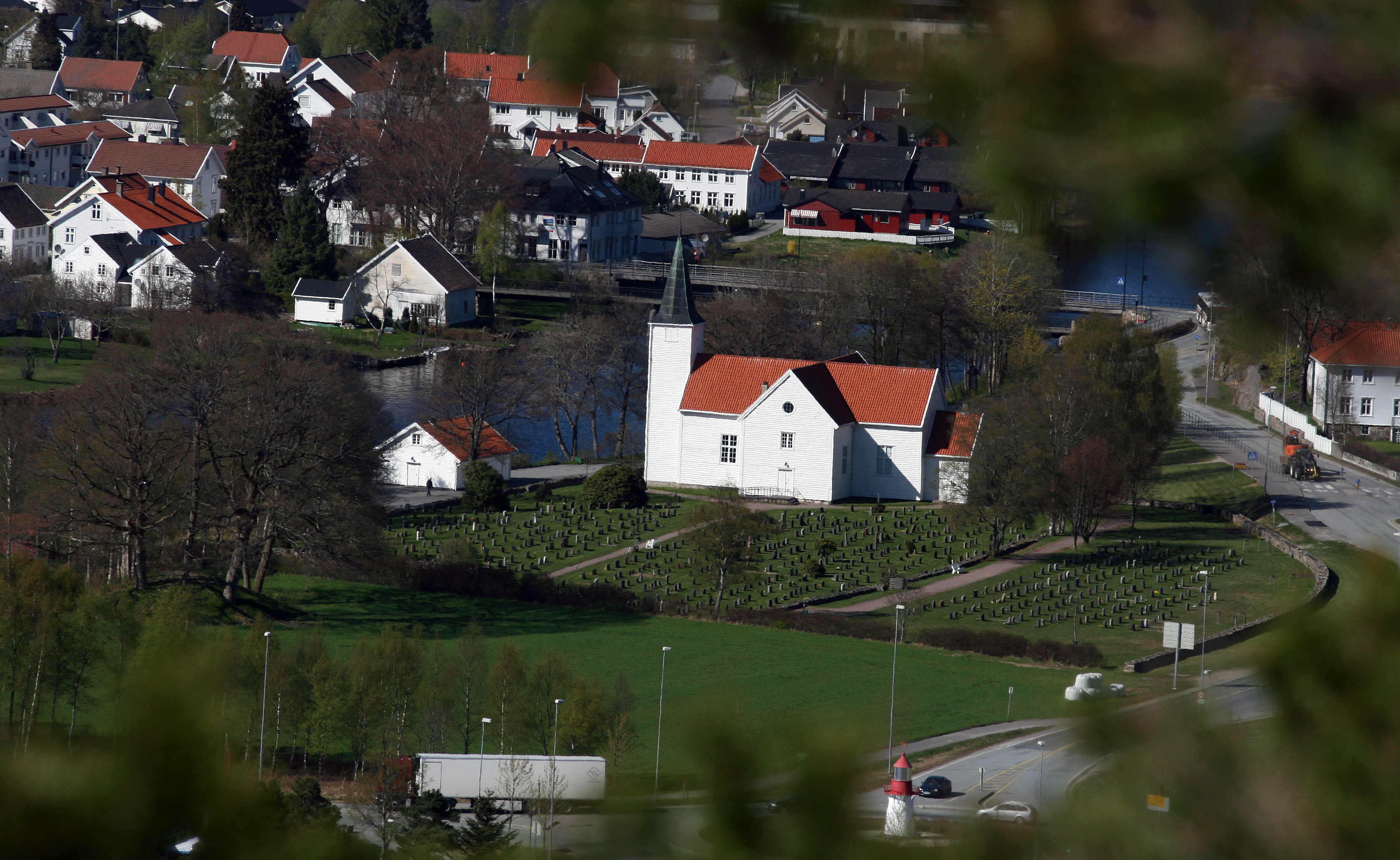 Valle church.